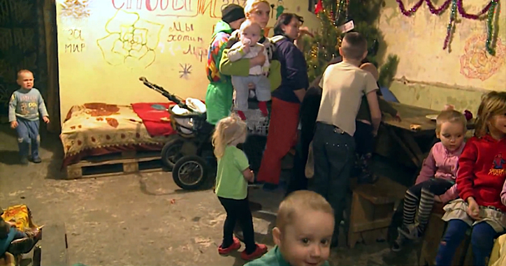 Ded Moroz visits children in Donetsk bomb shelter, 6 January 2015.